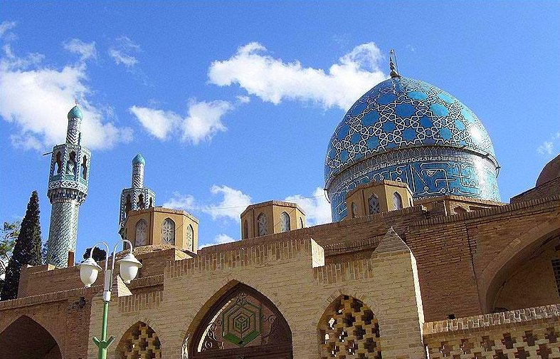 Tiled dome and minarets, with cupolas, of the adobe Shrine of Shah Nematollah Vali — in Mahan, Kerman province, southern Iran.